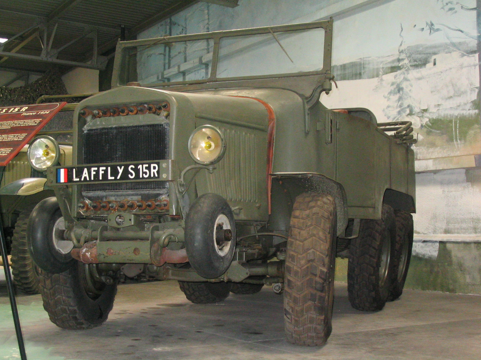 The Laffly S15R 6WD at Saumur museum